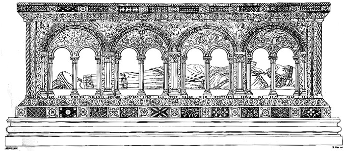 Henry I of Champagne